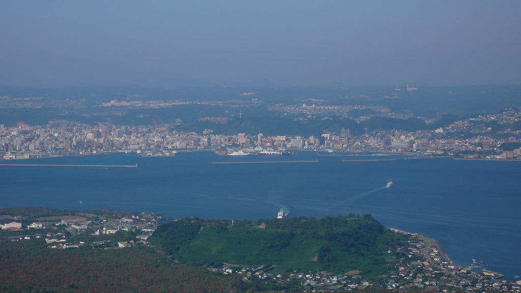 Kagoshima Bay and Port of Kagoshima as viewed from Sakurajima. Panasonic Lumix DMC-LX2